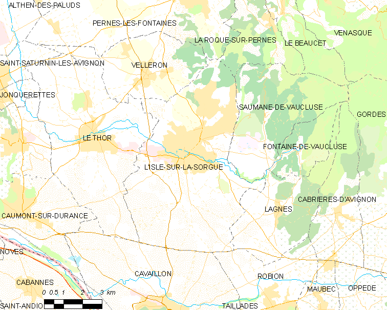 Map of French municipality L'Isle-sur-la-Sorgue